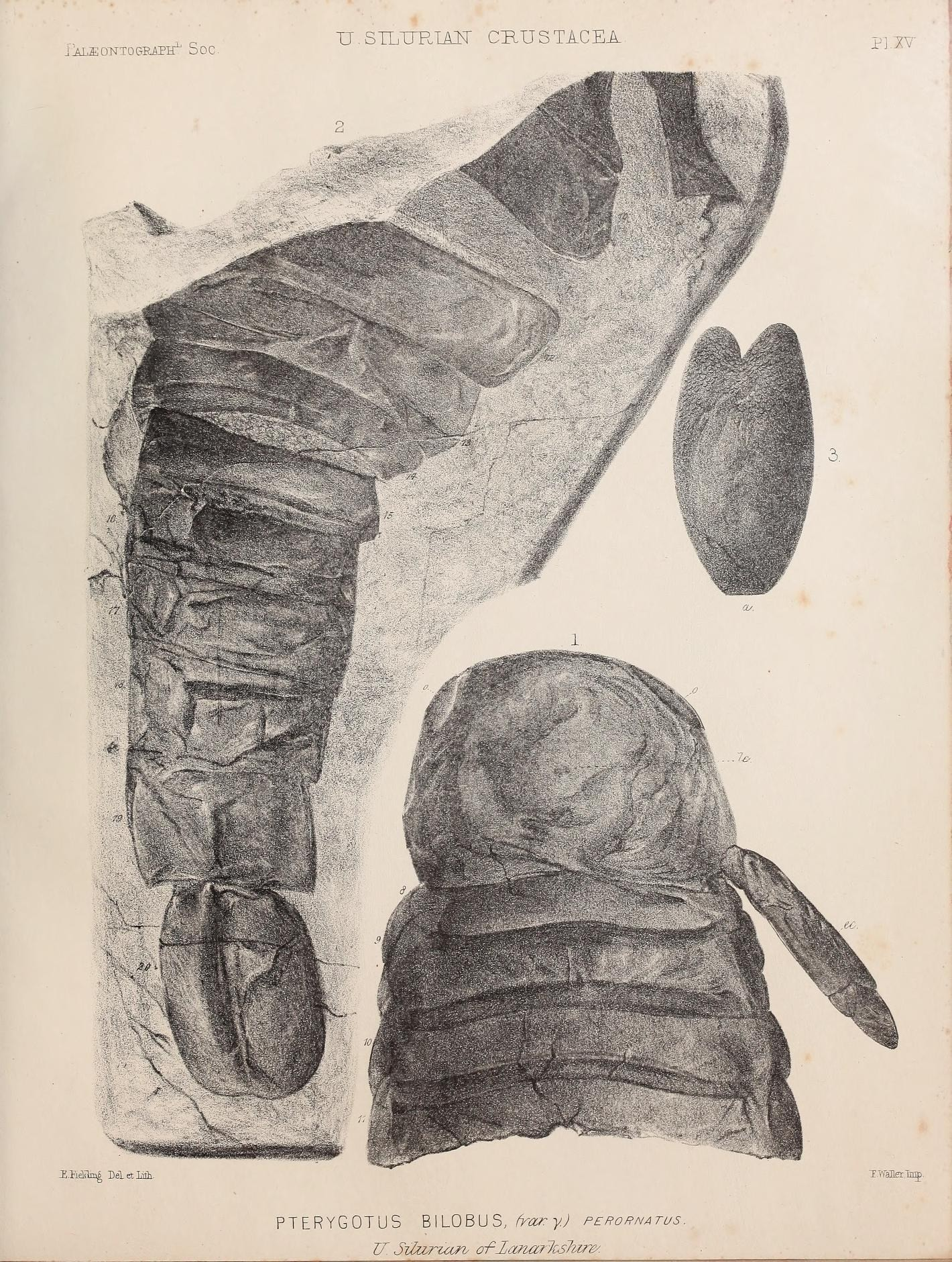 Lalsonto graph 1 ' Soc TJ.STLiniIA3Sr CHUSTACEA Pl.IV iiifflm^ DeLetlith. TWaHer.Tmp. PTERYGOTUS BILOBUS, freer y.) perornatus. IT SiIzunasK o-flaruulcsJzir^.